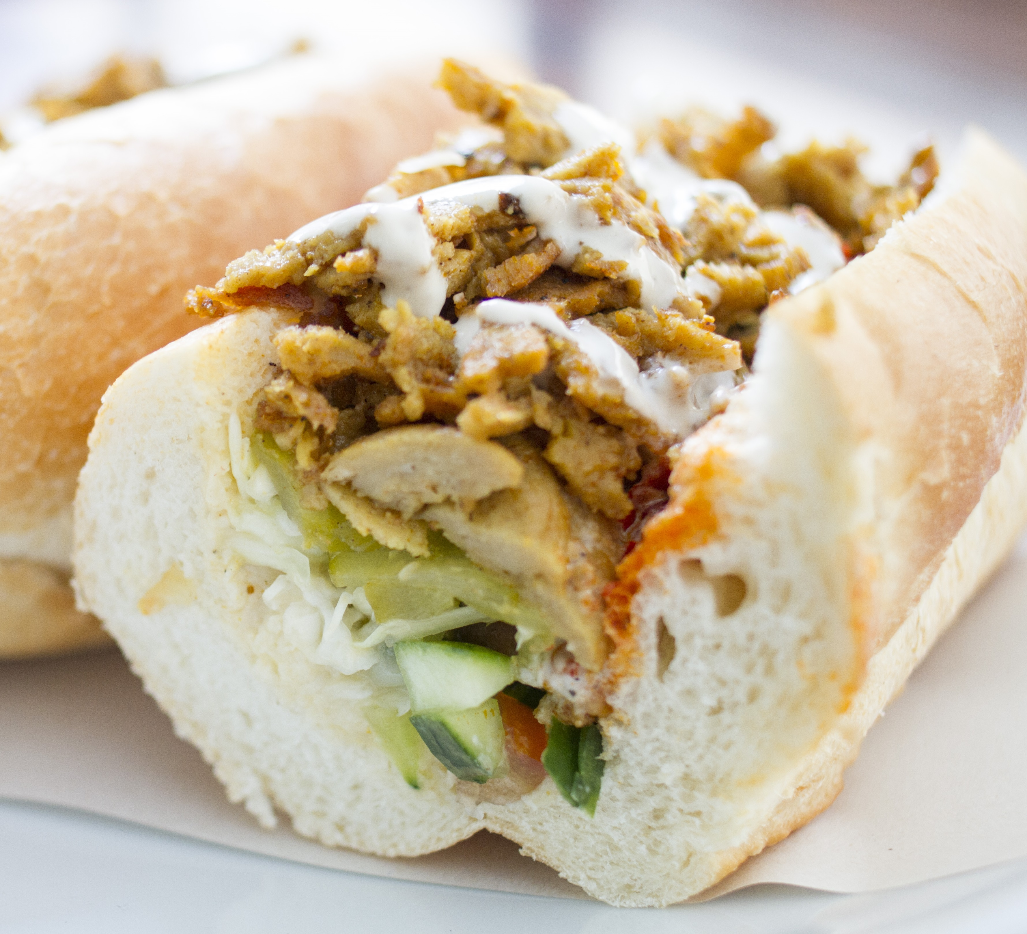 Vegan Shawarma from Israel, Photographed by Roee Shpernik (Cropped version of the Image).